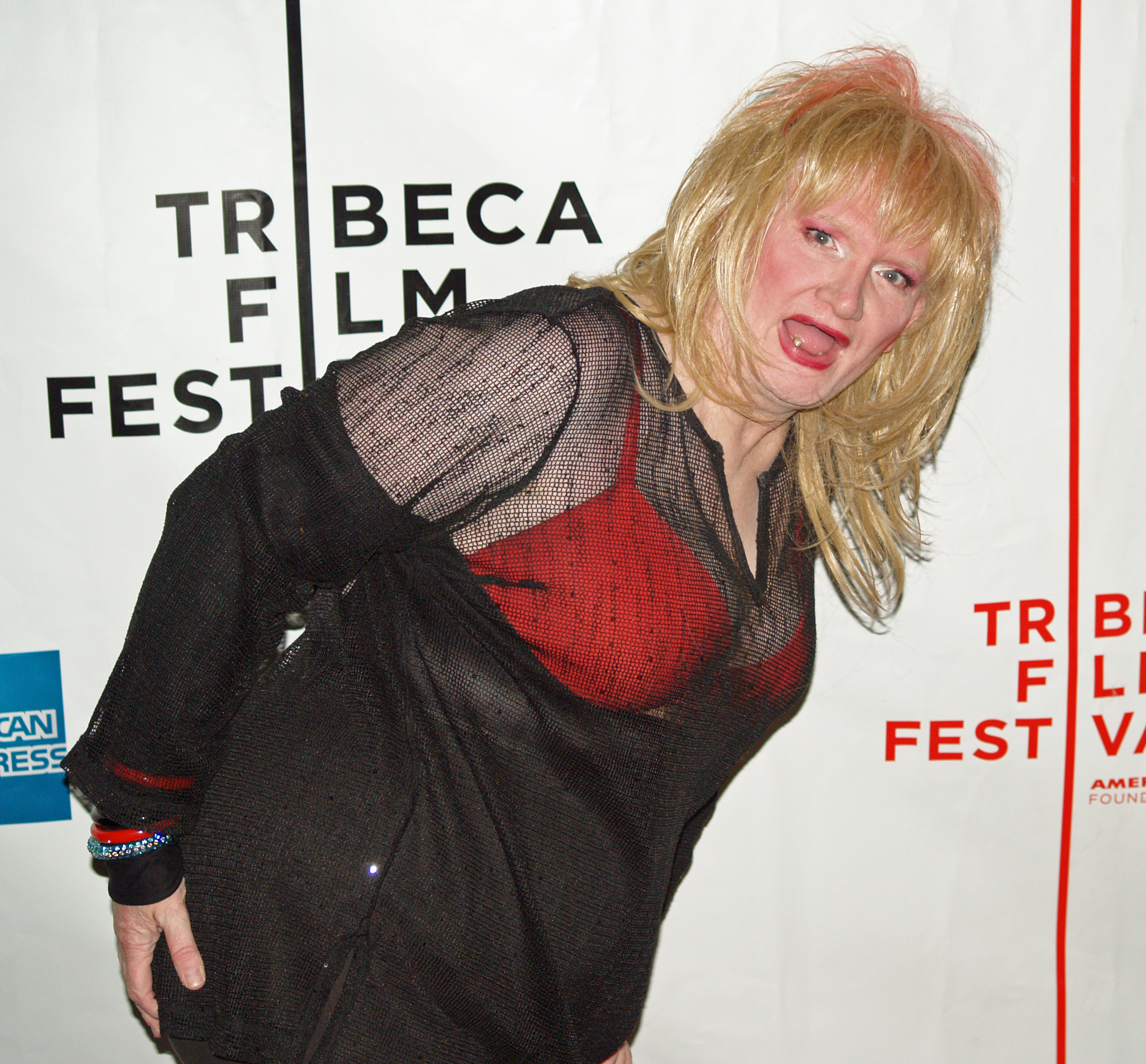 Jayne County at the premiere of Squeezebox! at the 2008 Tribeca Film Festival.